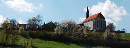 church Adlersberg near Pettendorf, view from south-east